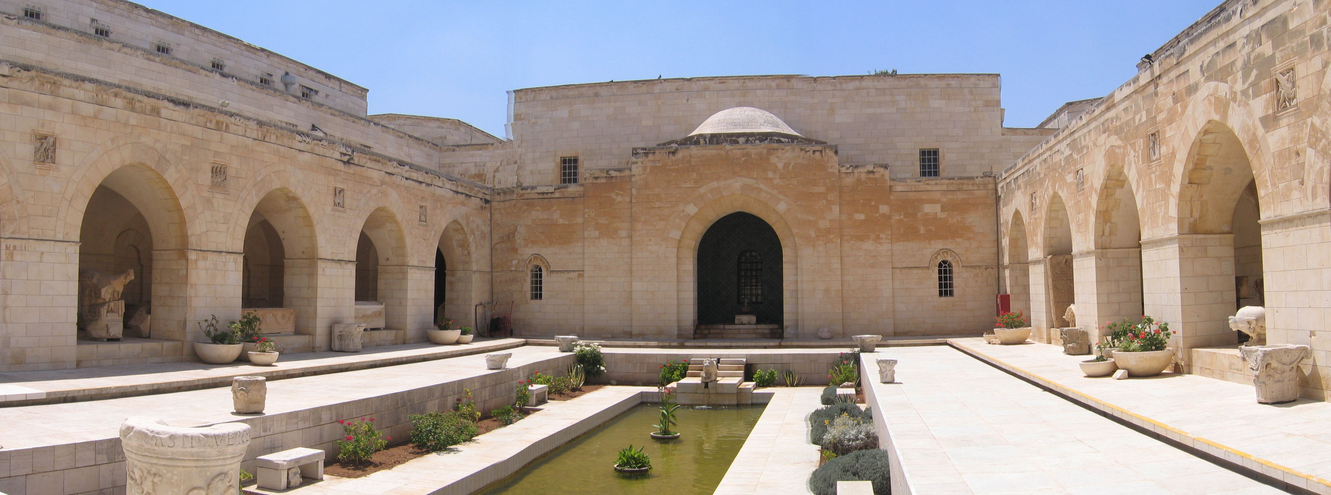 Rockefeller Museum